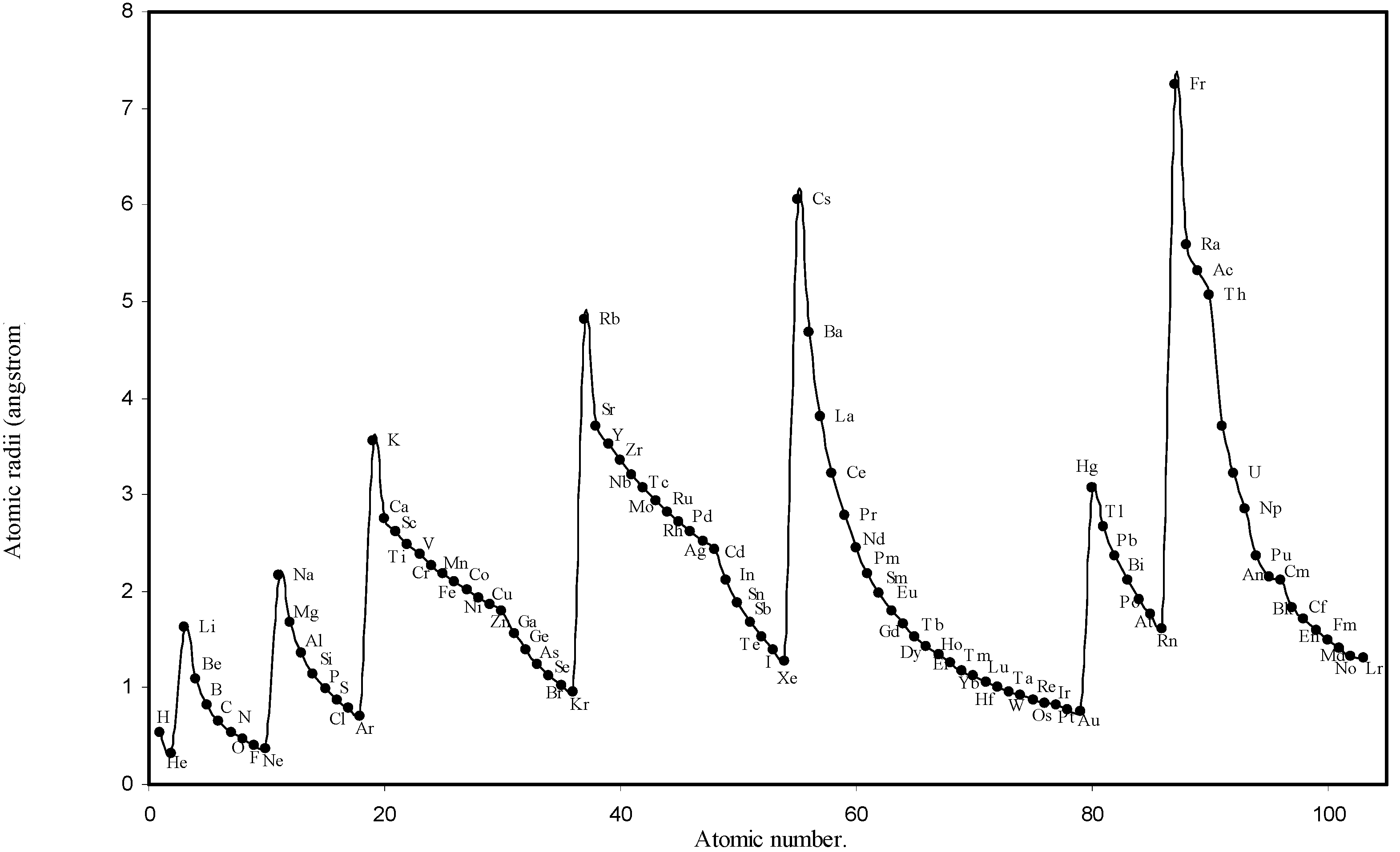 The computed atomic radii are plotted as a function of atomic number.